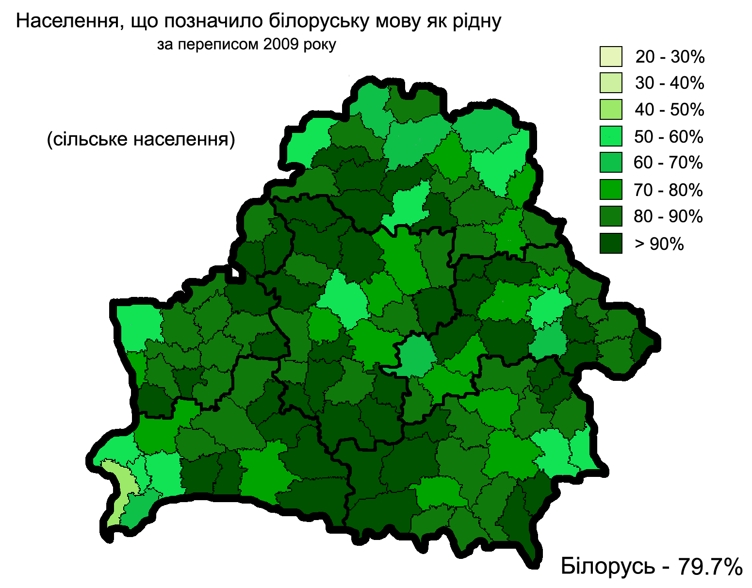 Belarusian as native language among rural population in Belarus according to the 2009 census